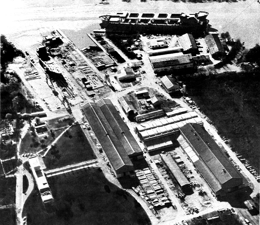 Aerial view of ASTARSA shipyard, Tigre, Buenos Aires Province, Argentina, in 1967.